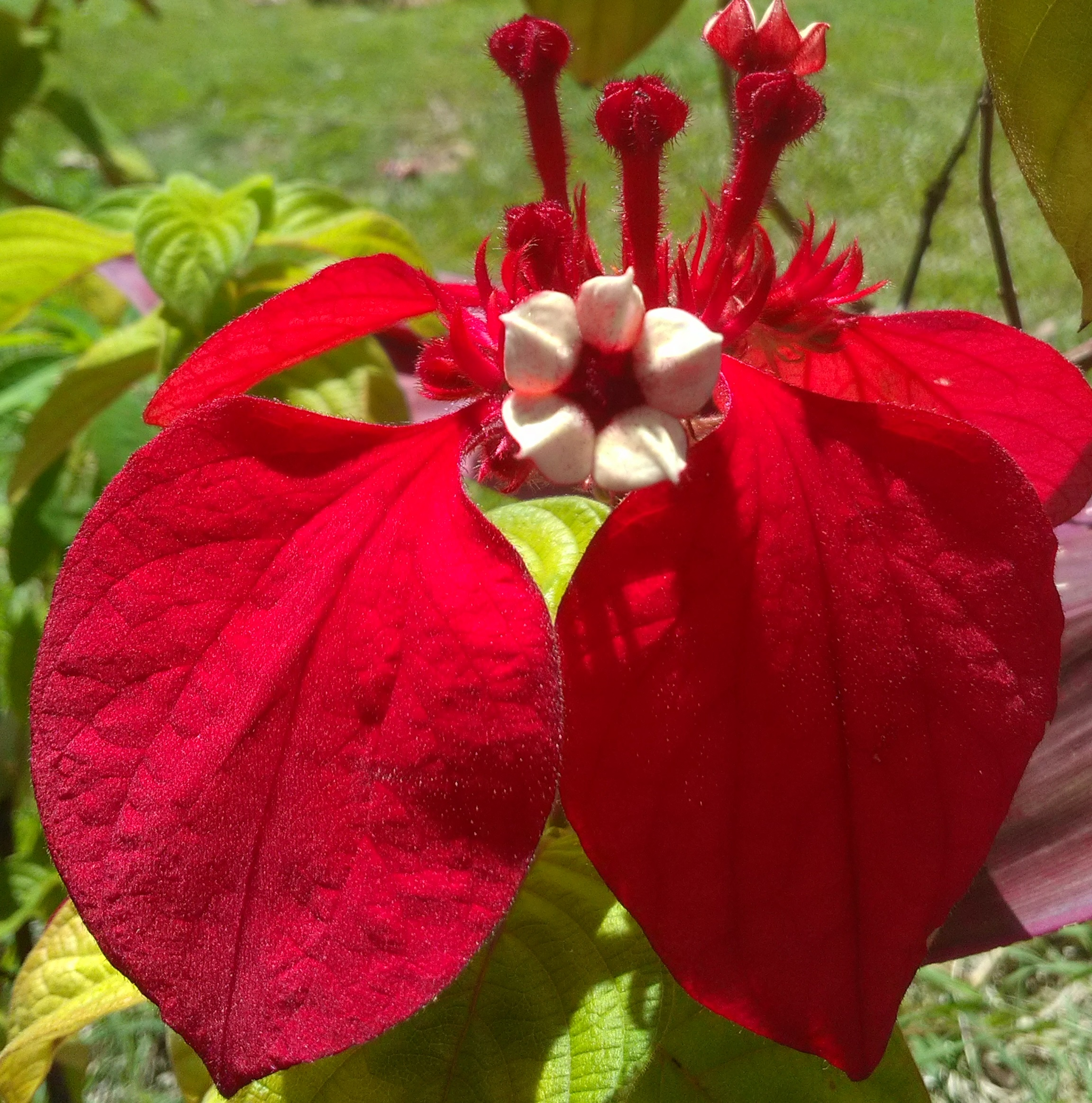 Mussaenda erythrophylla bracts and flower